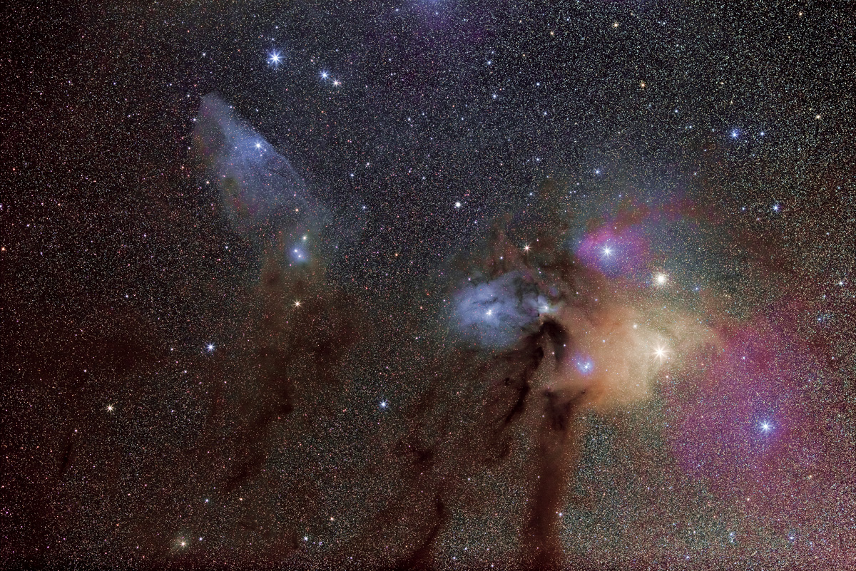 Wide field photo showing the nebulosity surrounding the Rho Ophiuchi cloud complex. Image created with 35 × 31 stacked 180 second (total 105 minutes) sub-exposures taken with a stock Canon EOS 5D Mark II and 135 mm f/2L lens at f/4 and ISO 1600, stacked using Deep Sky Stacker and finished in Adobe Photoshop CS5.